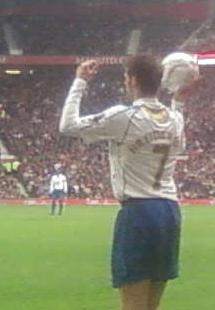 Hermann Hreiðarsson, as photoed by Dave Adcock at Old Trafford FA cup tie Man Utd vs Portsmouth on a samsung E800 mobile phone